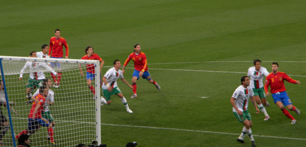 Of the many crosses by Spain, most were too high or wide for the strickers.